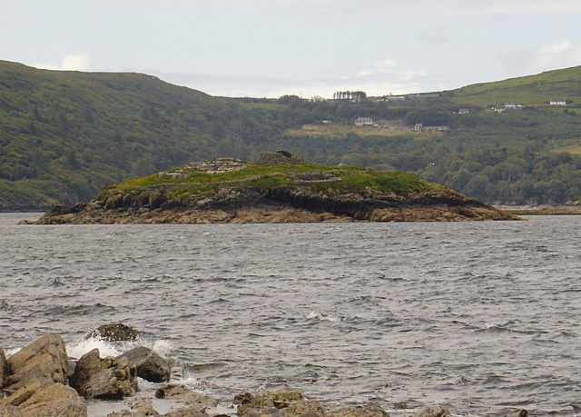 Church Island Church Island is on the grid line with about 90% of the island being in this grid square. It is the site of an early Christian Monastery. Viewed from the southern end of White Strand Beach. Valentia Island is behind.